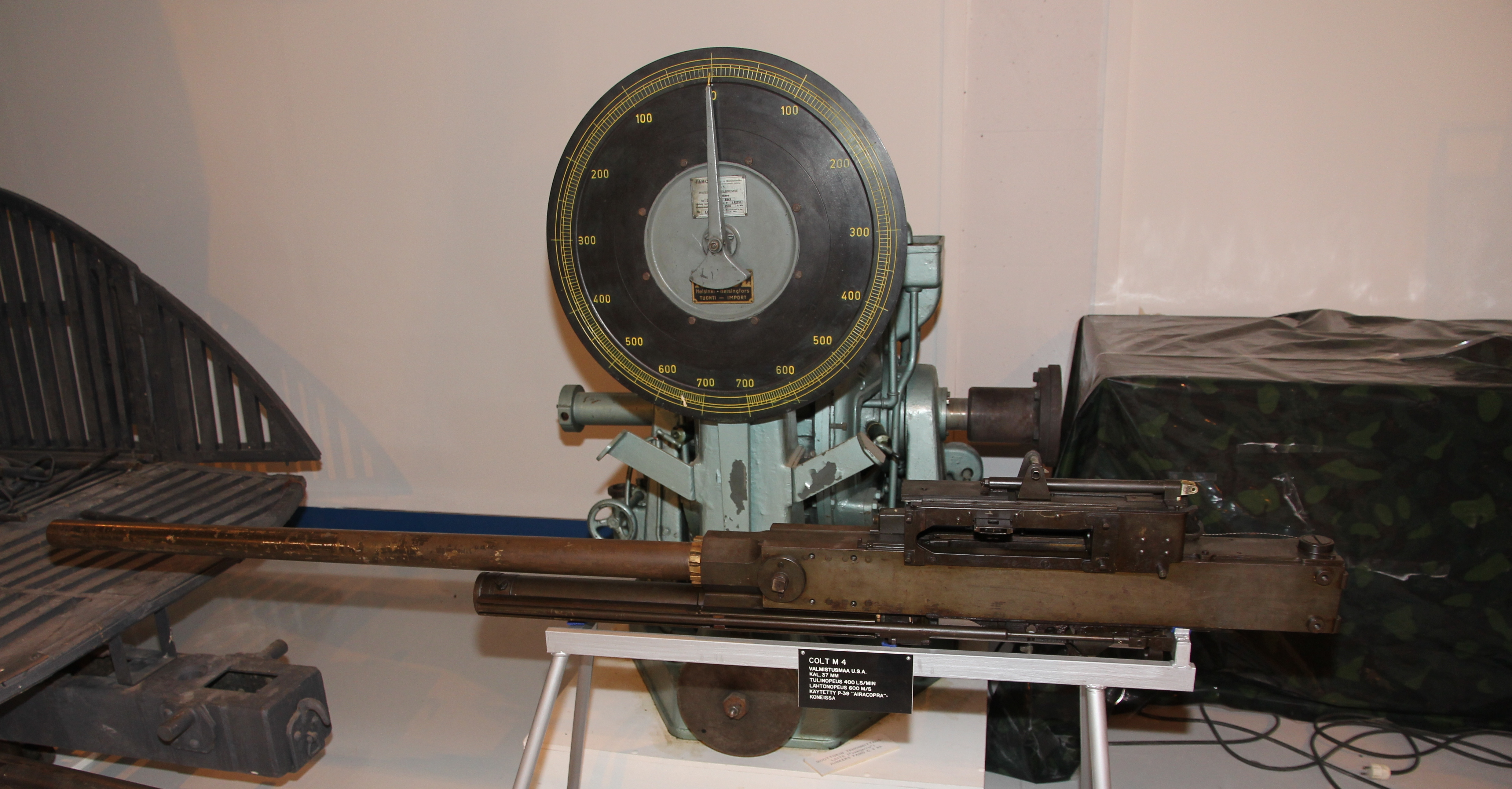 37 mm Colt M4 aircraft cannon used in P-39 Airacobra fighters photographed in Aviation Museum of Central Finland. An unidentified equipment on the background.